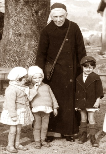 St. Ursula with children in Ucel/ France, 1936